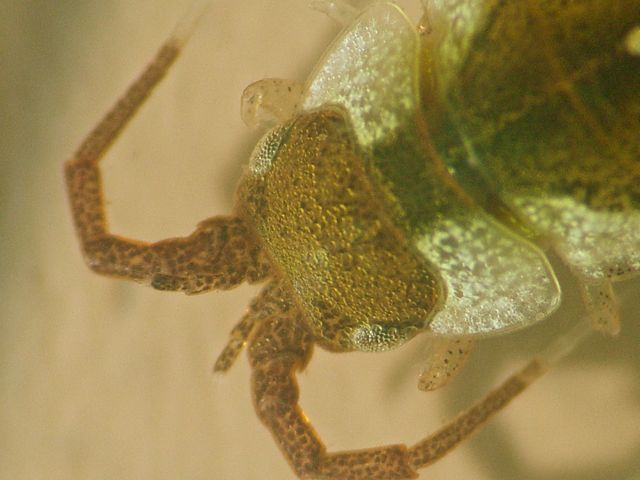 Idotea baltica - found on Greater Cumbrae, Scotland